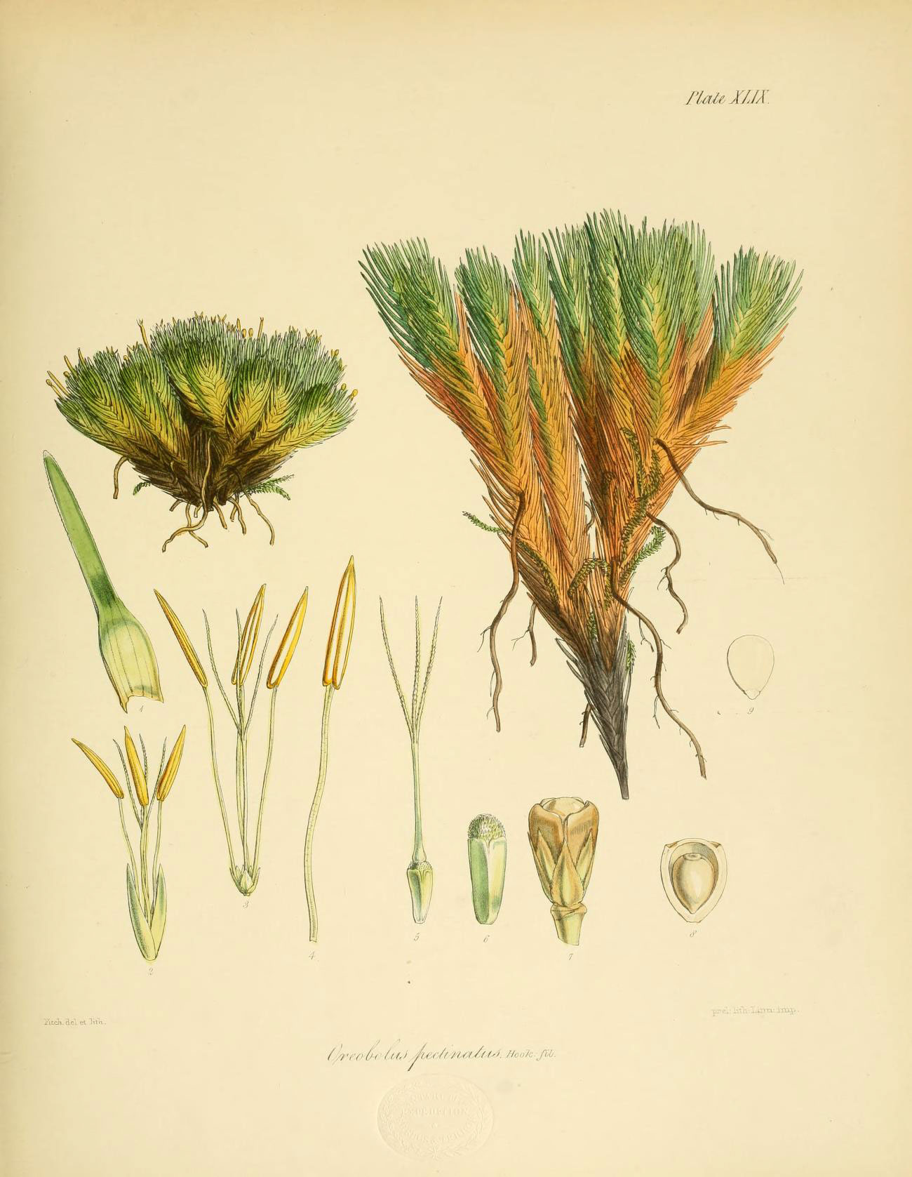 Fitch del. et lith. Oreobolus pectinatus Hook.fil. Plate XLIX